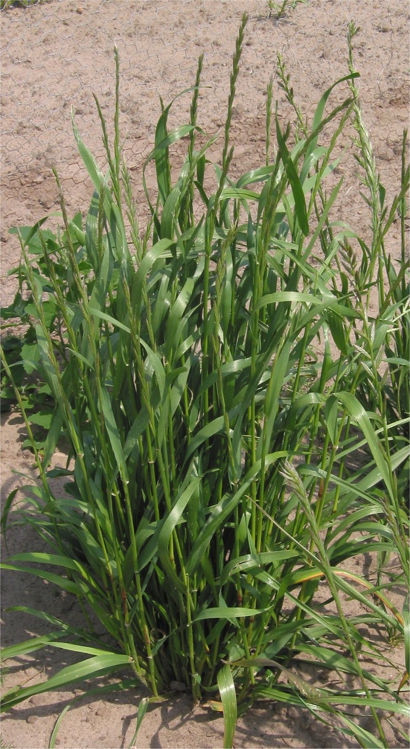 (Westerwolds raaigras plant) Lolium multiflorum